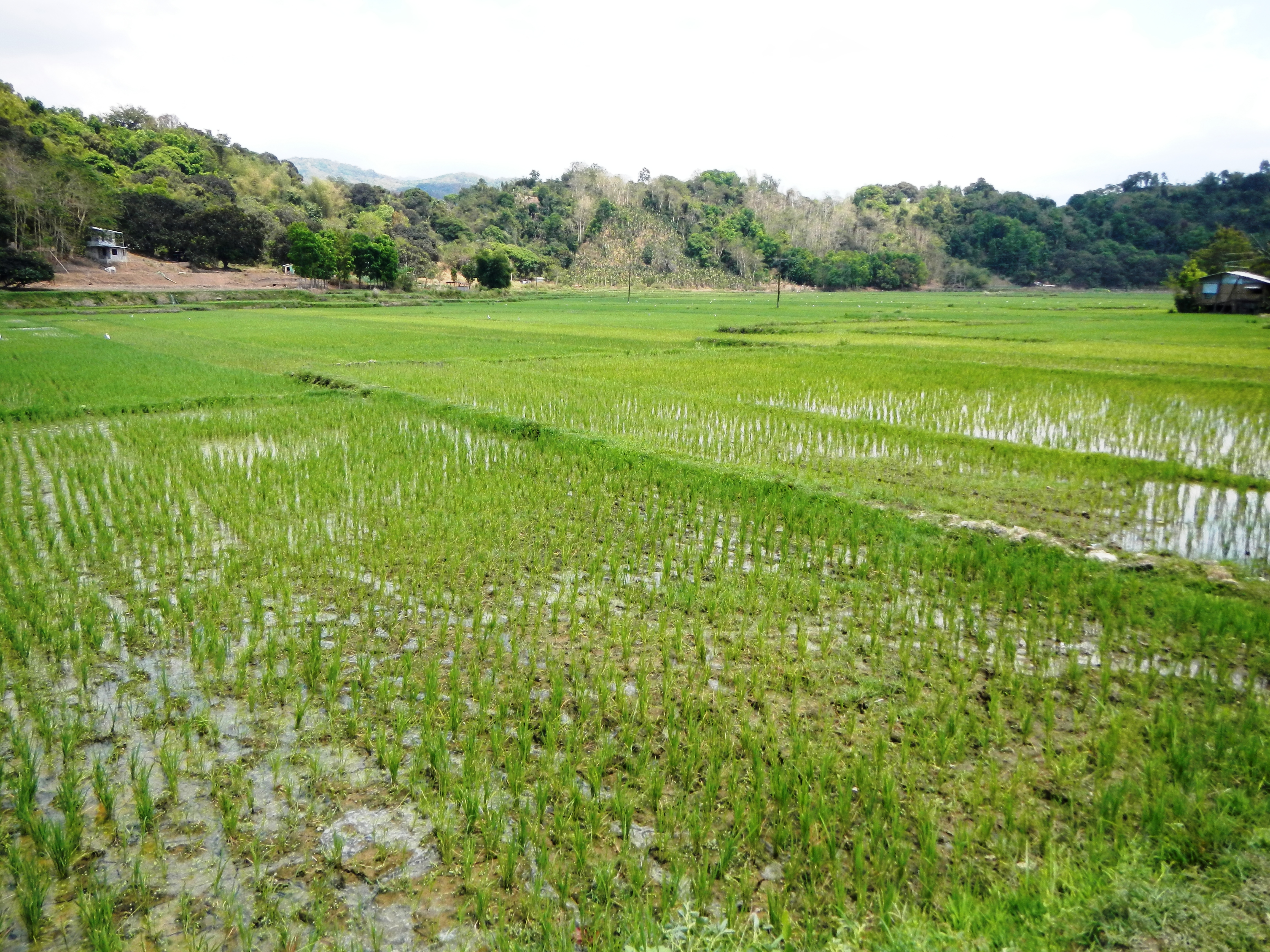 Welcome Arch of Barangay Gusing Sur, Welcome Arch of Gusing Norte: simply picturesque portraits of portraits of Naguilian, La Union Province (bordered byCordillera Central (Luzon), gateway to the Welcome Arch of Bagulin, La Union, La Union Province, gateway to Town Proper of Bagulin, La Union, Luguit Bridge KM 264+792, Welcome sign of Naguilian Town Proper, Welcome sign of Cabaritan Sur, Naguilian Bridge, KM 265+655 gateway to Town Proper of Naguilian, La Union.